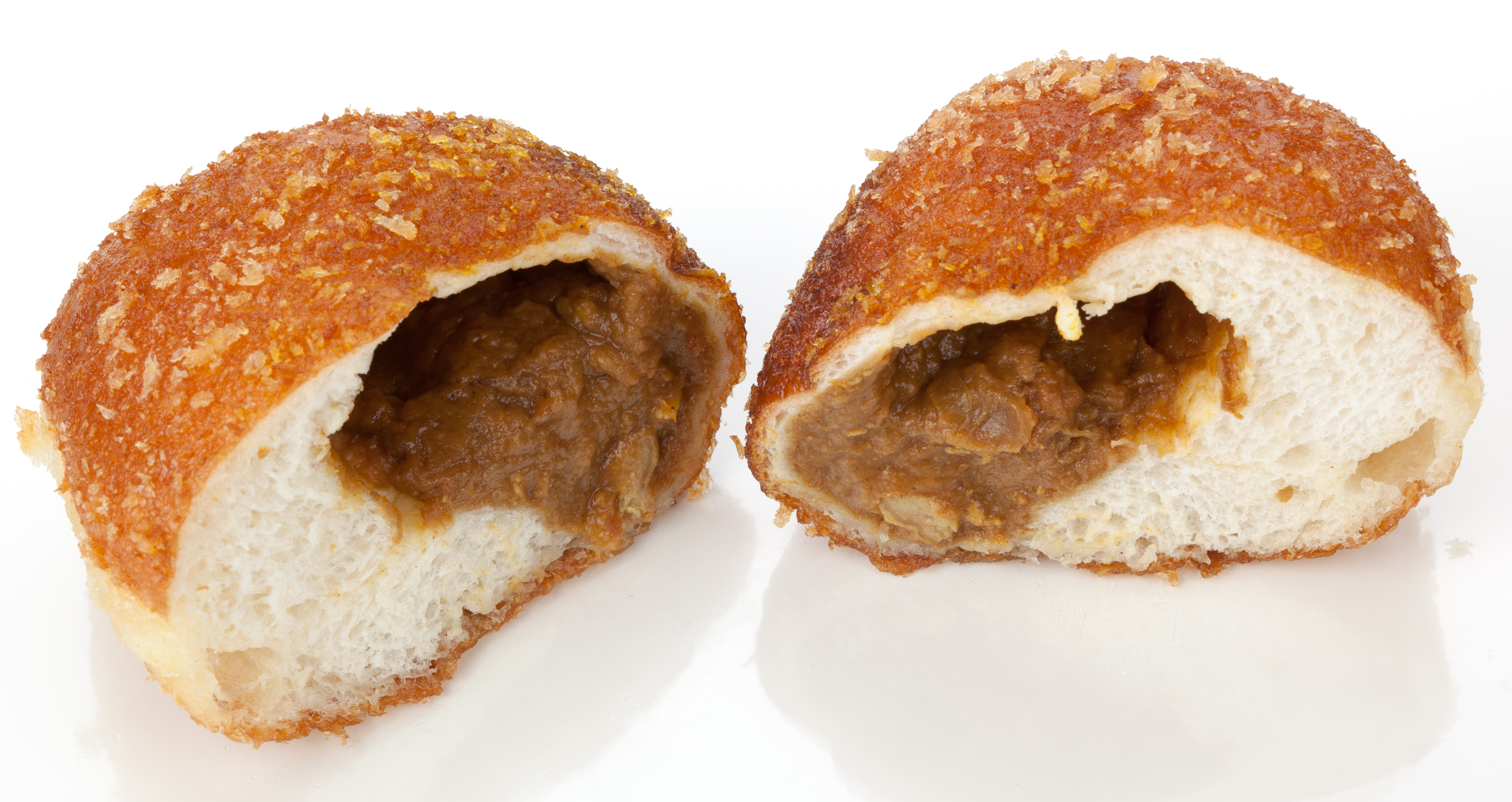 Deep fried curry bread (karē pan)